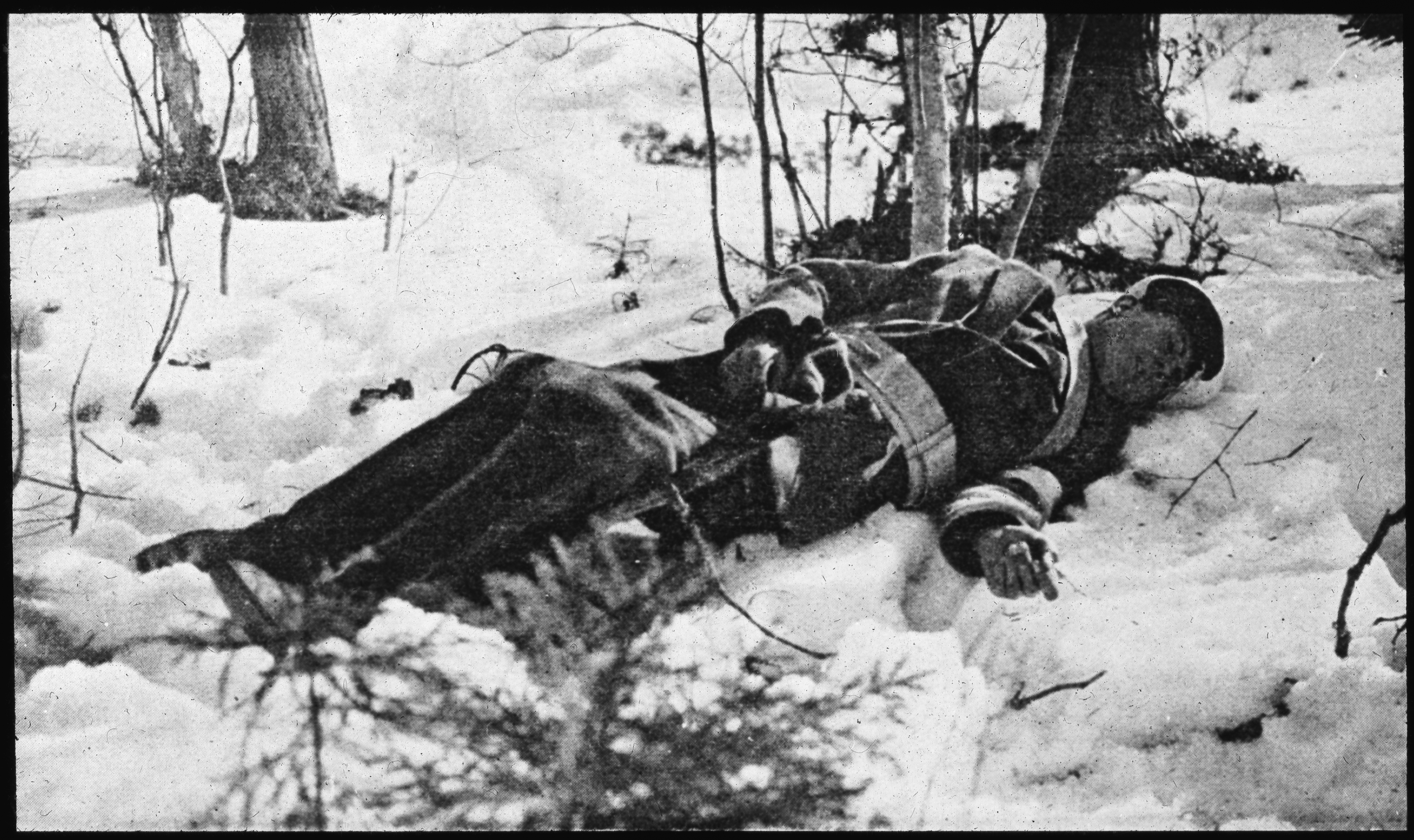 1918 Finnish Civil War: Killed White soldier after the Battle of Länkipohja.